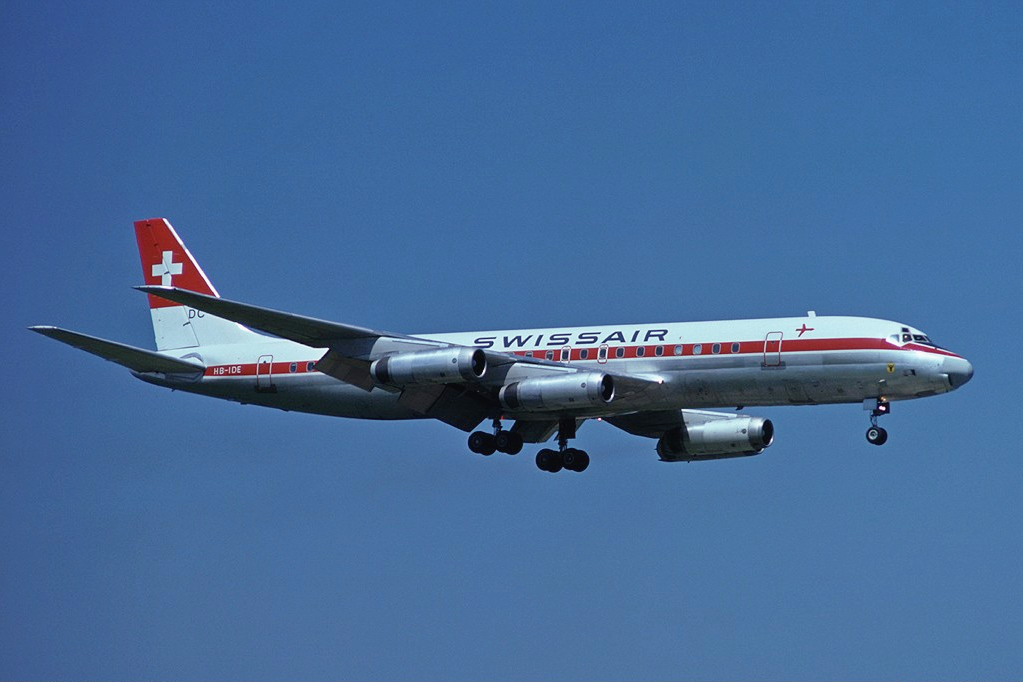 HB-IDE, a Swissair Douglas DC-8-62, crashed at Ellinikon International Airport on 8 October 1979. The aircraft is seen here in July 1977 at Zürich Airport (ZRH / LSZH).